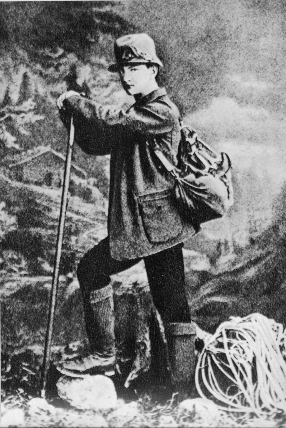 Scan from a photograph of the Munich mountaineer Georg Winkler (* 08/26/1869, † 08/16/1888 or 08/17/1888), first ascender of Torre Winkler, the lowest of the Vajolet Towers (Dolomites). Photographer: Anton Karg.